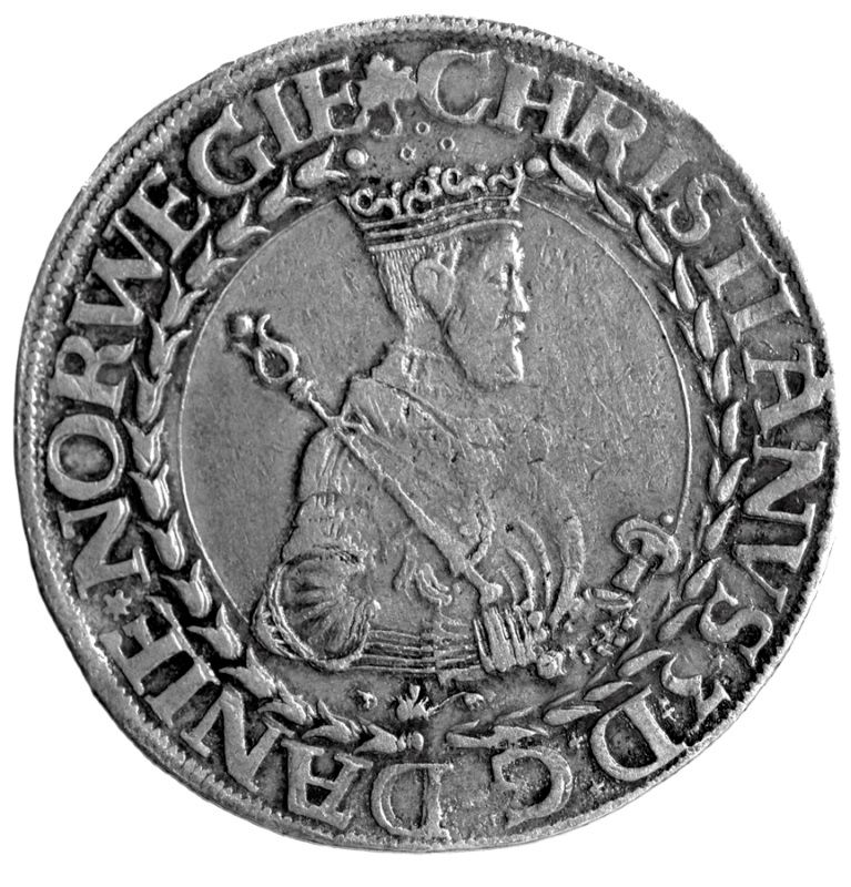 The front side of Gimsøydaleren, norwegian silver coin from 1546. Shows portrait of king Christian III.